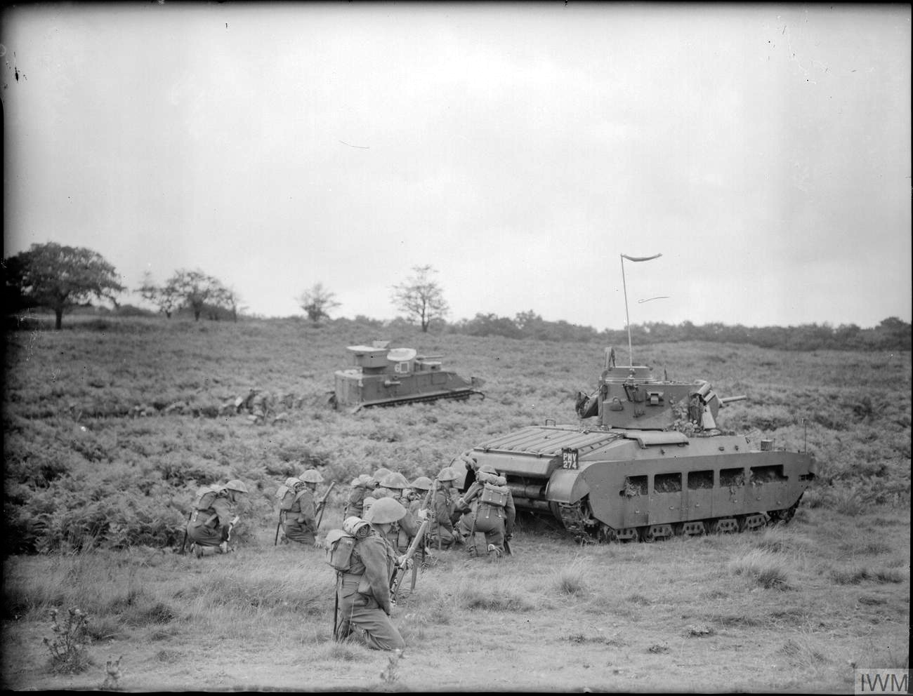 IWM caption : Troops of the 5th Battalion, King's Shropshire Light Infantry, shelter behind a Matilda II tank of 42nd Royal Tank Regiment during manoeuvres at Knowsley Park, Prescot, near Liverpool. A Vickers Medium tank can be seen in the background.